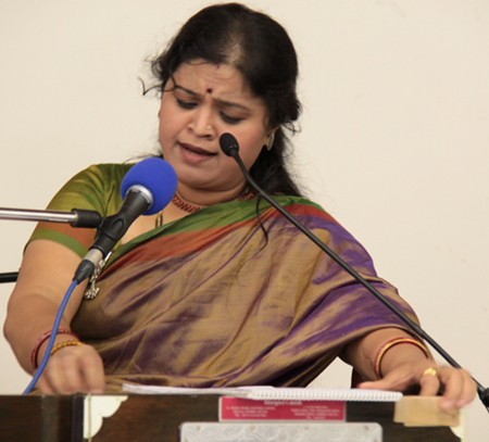 In New Zealand